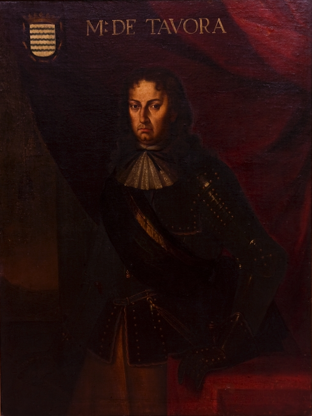 Portrait painting of D. Luís Álvares de Távora (1634-1672), painted 1673-1675 by Feliciano de Almeida. Currently at Galleria degli Uffizi, Florence, Italy.